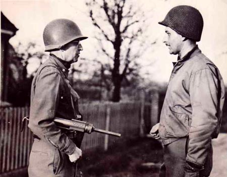 Brigadier General William K. Harrison, Jr., Assistant Division Commander, 30th Infantry Division and Capt. John E. Kent, Co. A, 117th Infantry Regiment